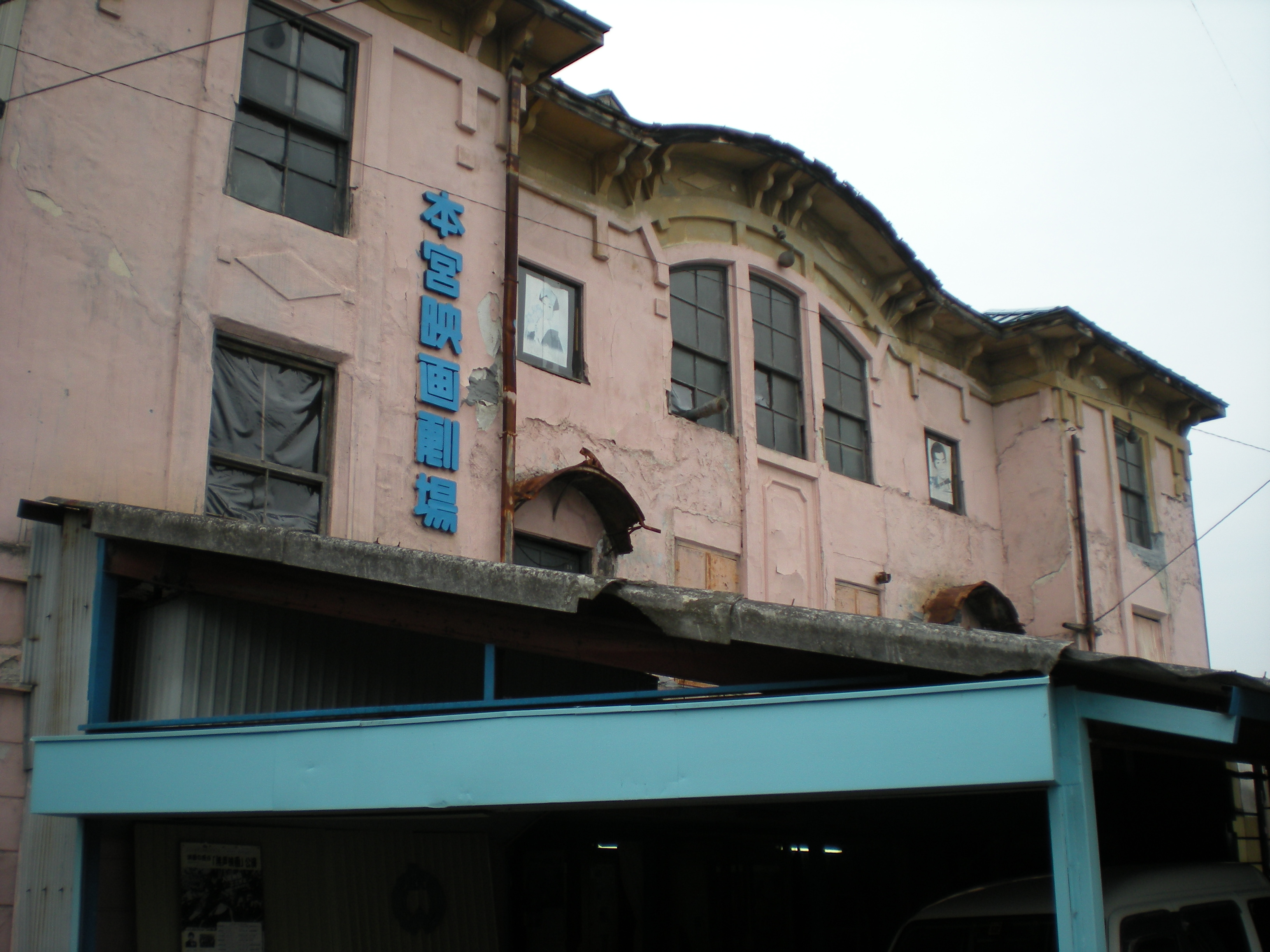 Motomiya Eiga Gekizyo, Motomiya, Fukushima prefecture, Japan